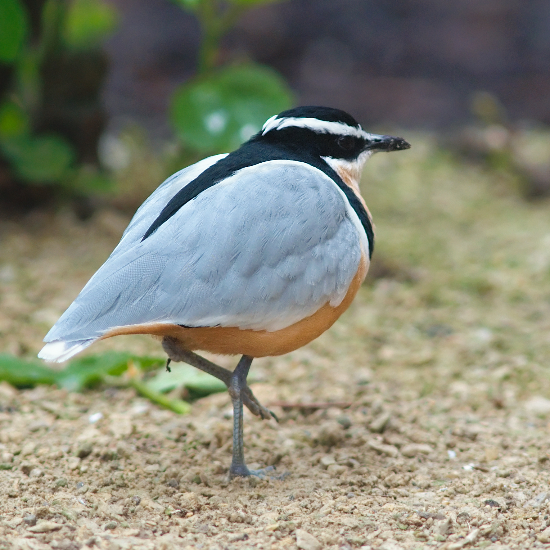 Egyptian Plover